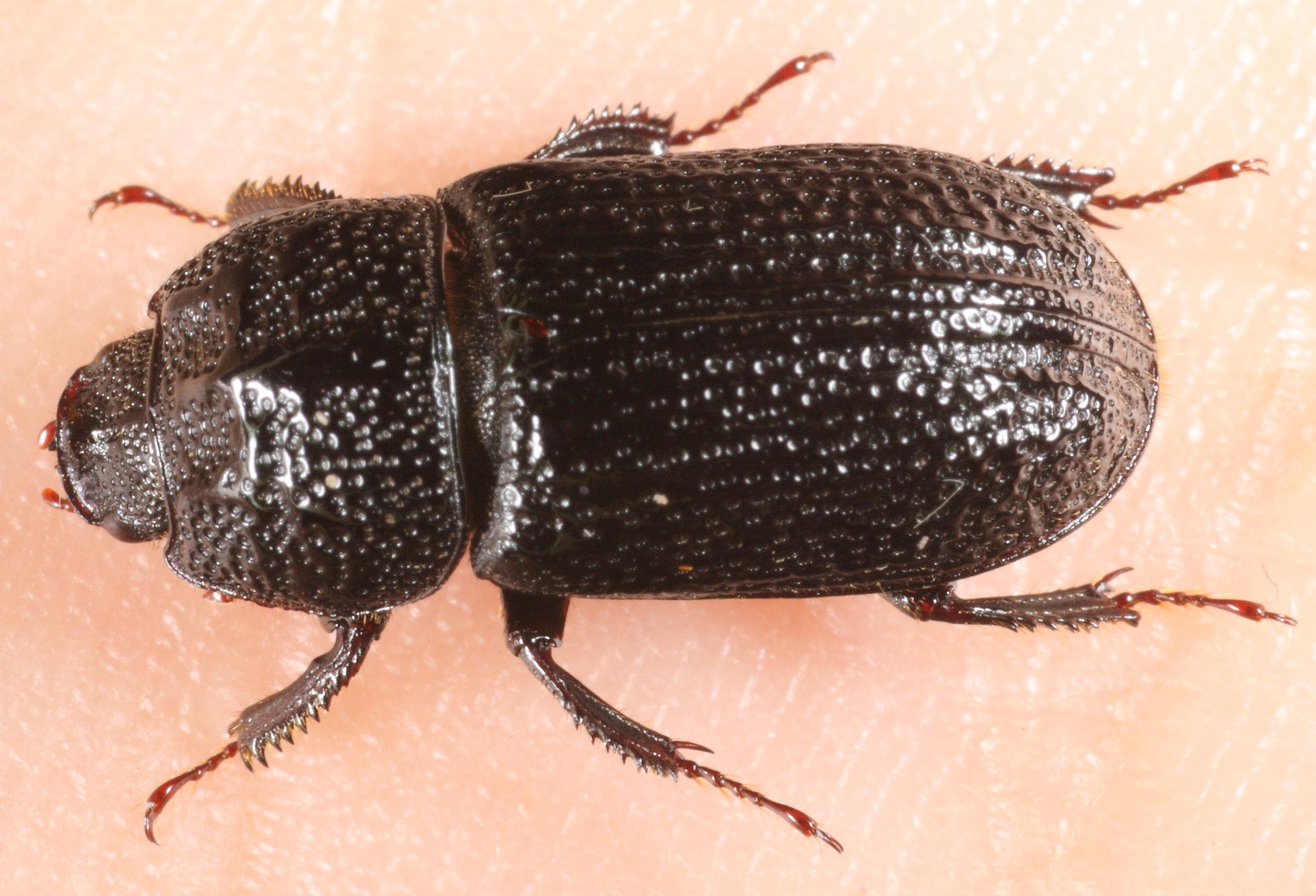 Female Sinodendron cylindricum